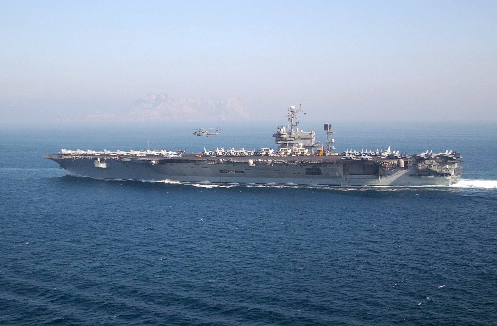 At sea with USS John F. Kennedy (CV 67) Aug. 8, 2002 -- John F. Kennedy, esorted by an HH-60H “Seahawk” assigned to the "Nightdippers" of Helicopter Anti-Submarine Squadron Five (HS-5) passes by the Rock of Gibraltar as it leaves the Mediterranean Sea. Kennedy and her embarked Carrier Air Wing Seven (CVW-7) are returning home after conducting missions in support of Operation Enduring Freedom. U.S. Navy photo by Photographer’s Mate 1st Class Jim Hampshire. (RELEASED)